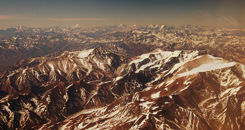 The view over the Andes from a airplane flight to Santiago (Chile).